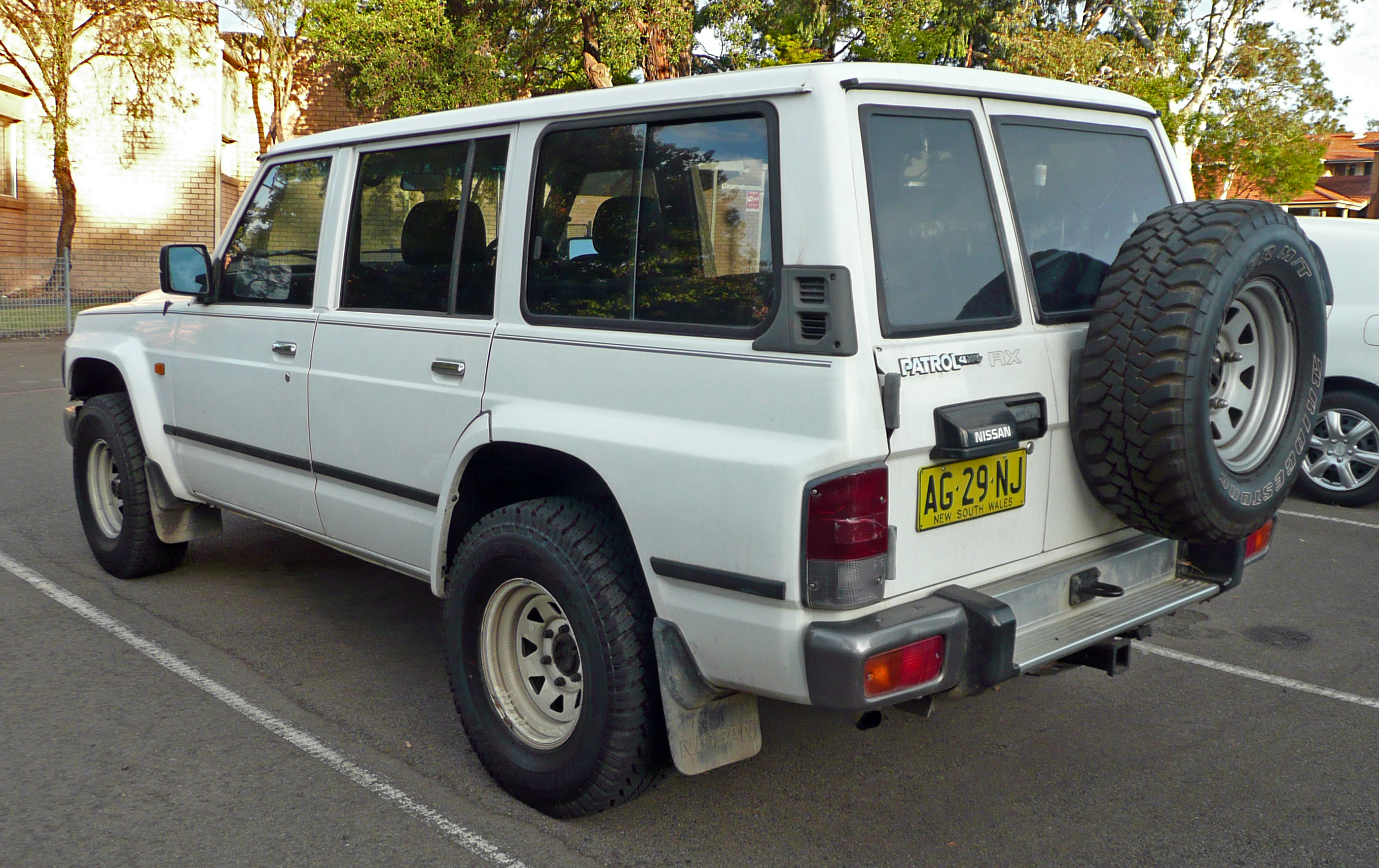 1997 Nissan Patrol (GQ II) RX wagon. Photographed in Sutherland, New South Wales, Australia.